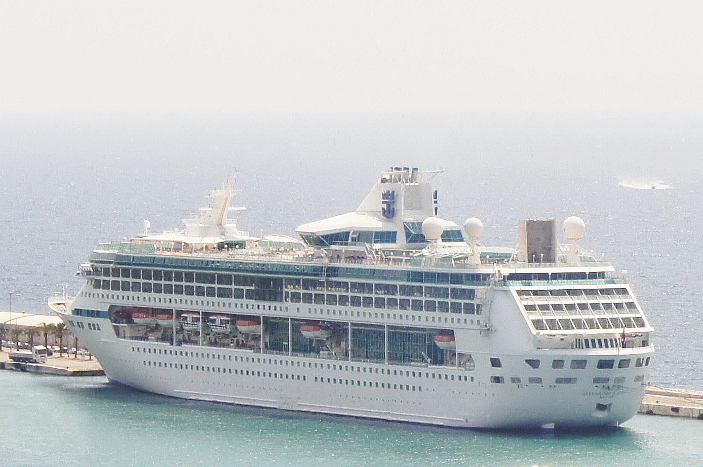 Splendour of the Seas at Split, Croatia, on 2011-07-14.